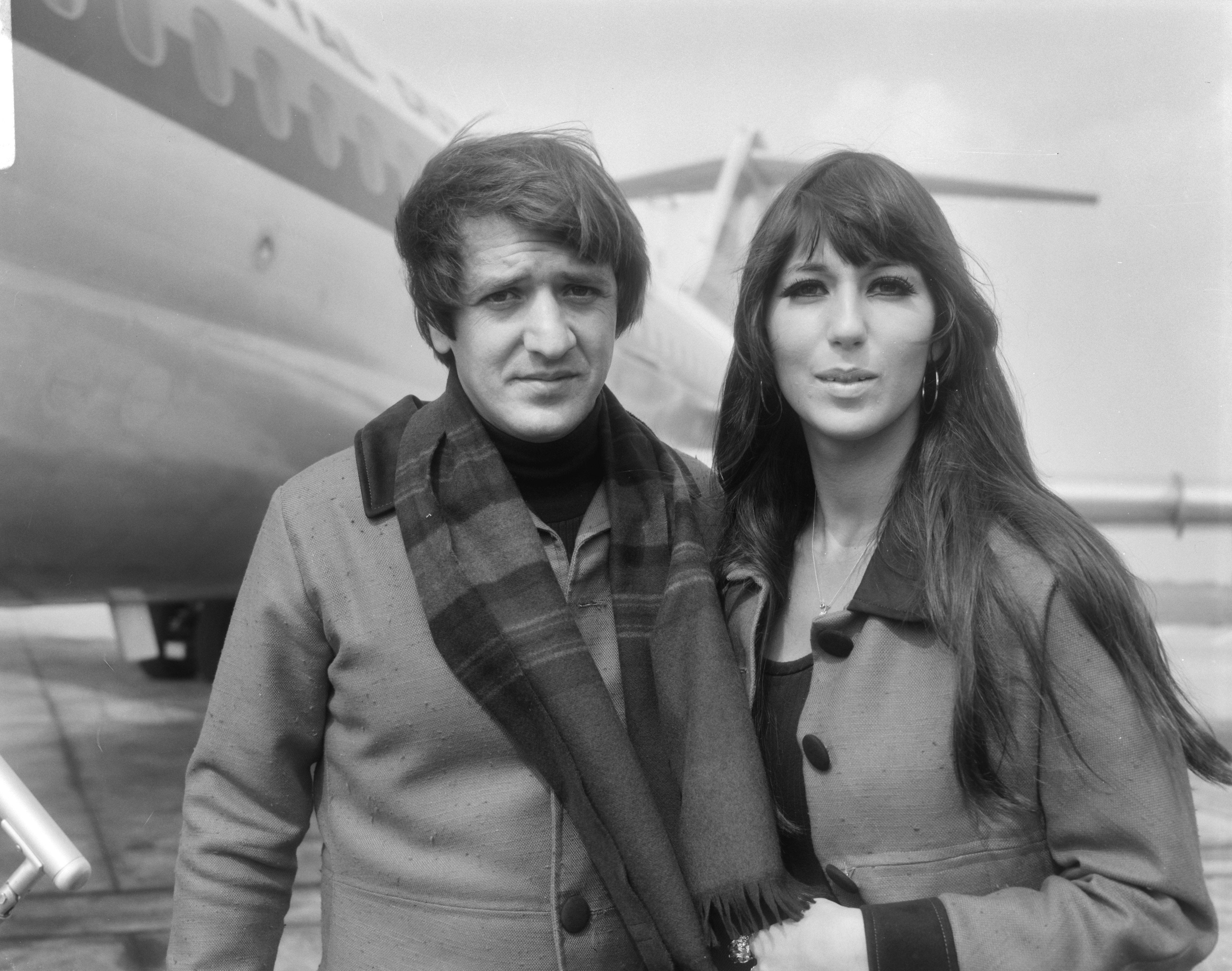 Sonny & Cher leave the Netherlands. Schiphol Airport, 1 Sept. 1966. Photo by Joop van Bilsen (ANEFO)